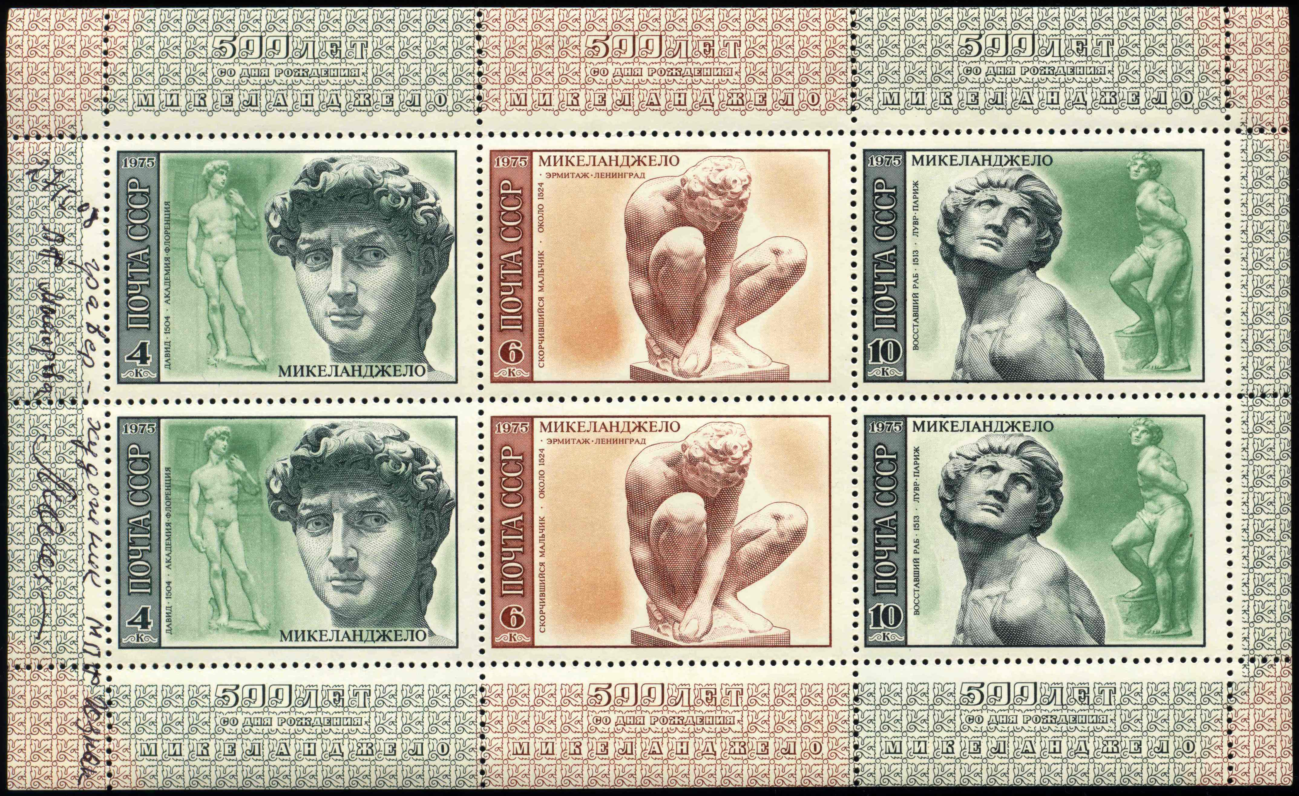 Miniature sheet of Soviet Union stamps, 500th anniversary of Michelangelo; 1975, unused, CPA No. 4432-4434. The miniature sheet is autographed/signed by Lidiya Mayorova.